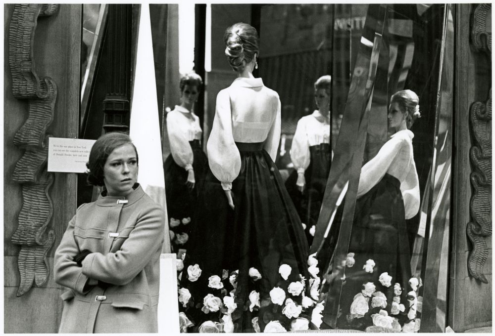 Accession Number: 2007:0275:0037 Maker: James Jowers (American b. 1938) Title: [WOMAN AND WINDOW DISPLAY] Date: 1968 Medium: gelatin silver print Dimensions: Image: 16.8 x 24.6 cm Overall: 20.3 x 25.4 cm George Eastman House Collection General – information about the George Eastman House Photography Collection is available at For information on obtaining reproductions go to